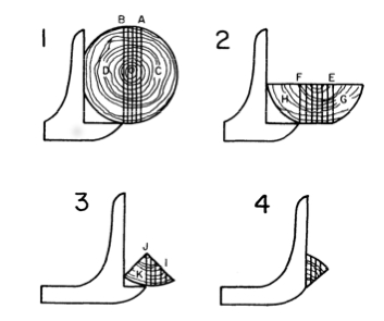 Diagram describing how to quarter saw logs over 19 inches